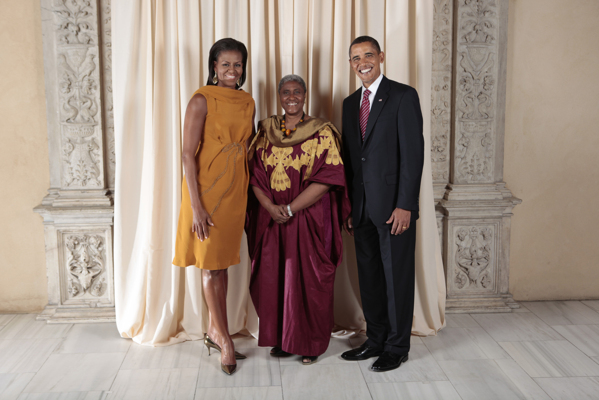 President Barack Obama and First Lady Michelle Obama pose for a photo during a reception at the Metropolitan Museum in New York with Olubanke King Akerele, Minister of Foreign Affairs of the Republic of Liberia.